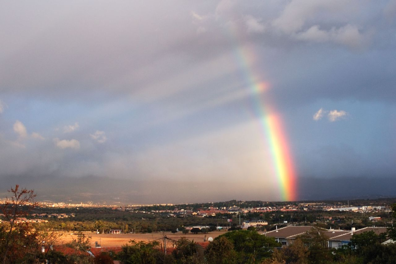 Taken from Collado Villalba, Madrid, Spain. While shooting this photo, I learnt that the light of a rainbow is heavily polarised, to the point that an ordinary polarising filter can make it completely invisible (when set 90 degrees from the orientation used for this photo). So if you ever need to get rid of those annoying rainbows that sometimes get into your landscape photos, don't hesitate :-)